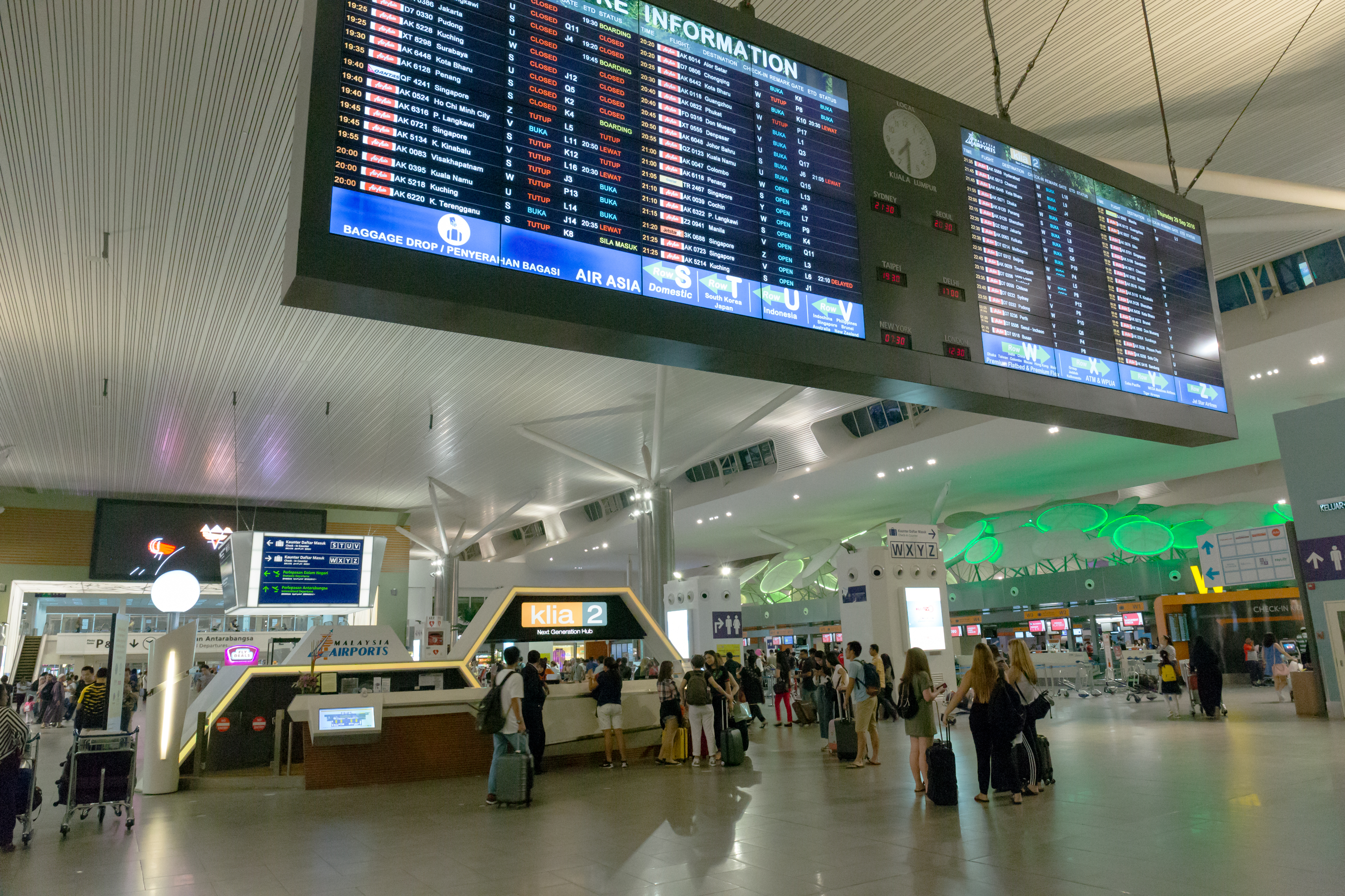 Kuala Lumpur International Airport: klia2 departure hall